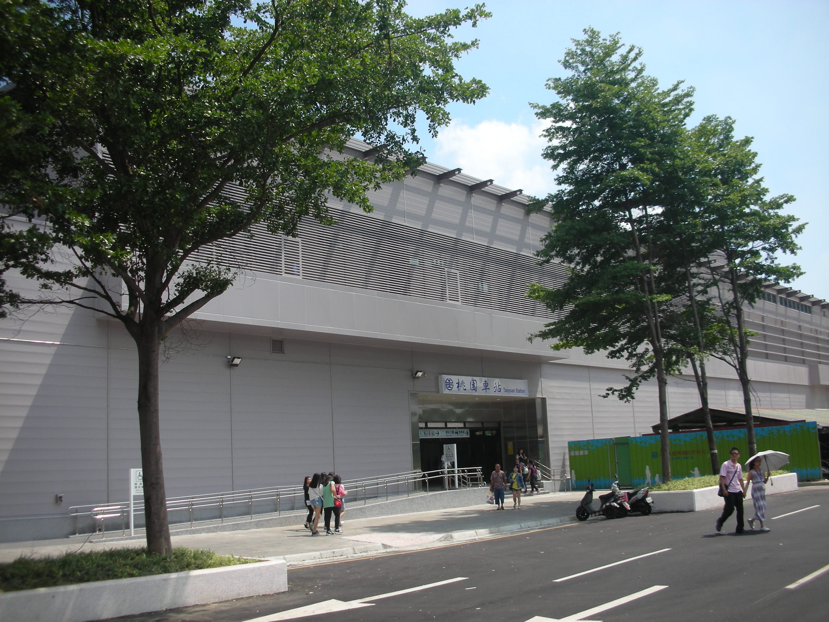 TRA Taoyuan temporary station east entrance.